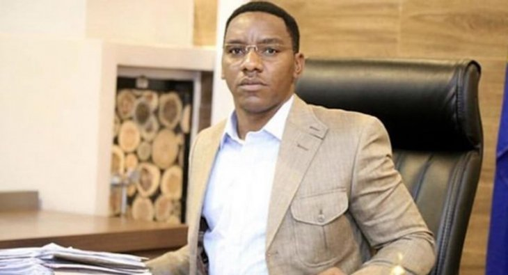 RC of Dar Es Salaam